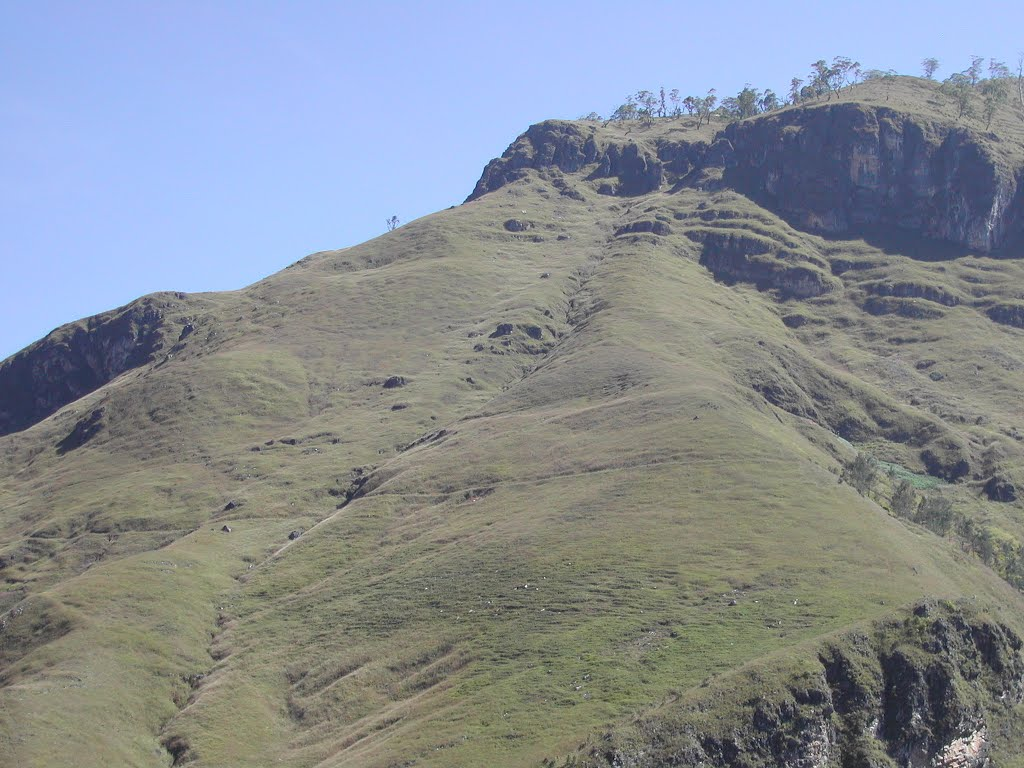 Bare grassy slopes near Ainaro-Same T-junction, suco Aituto